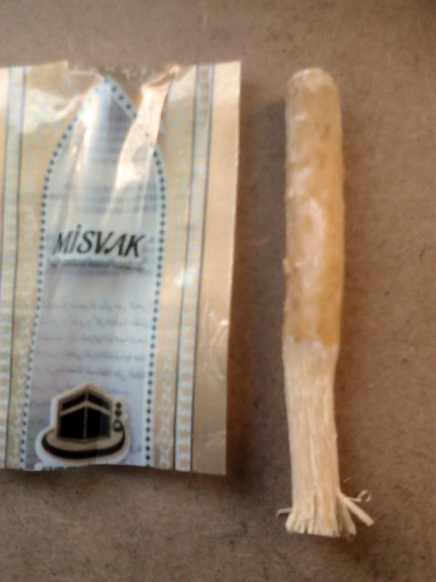 A Miswak